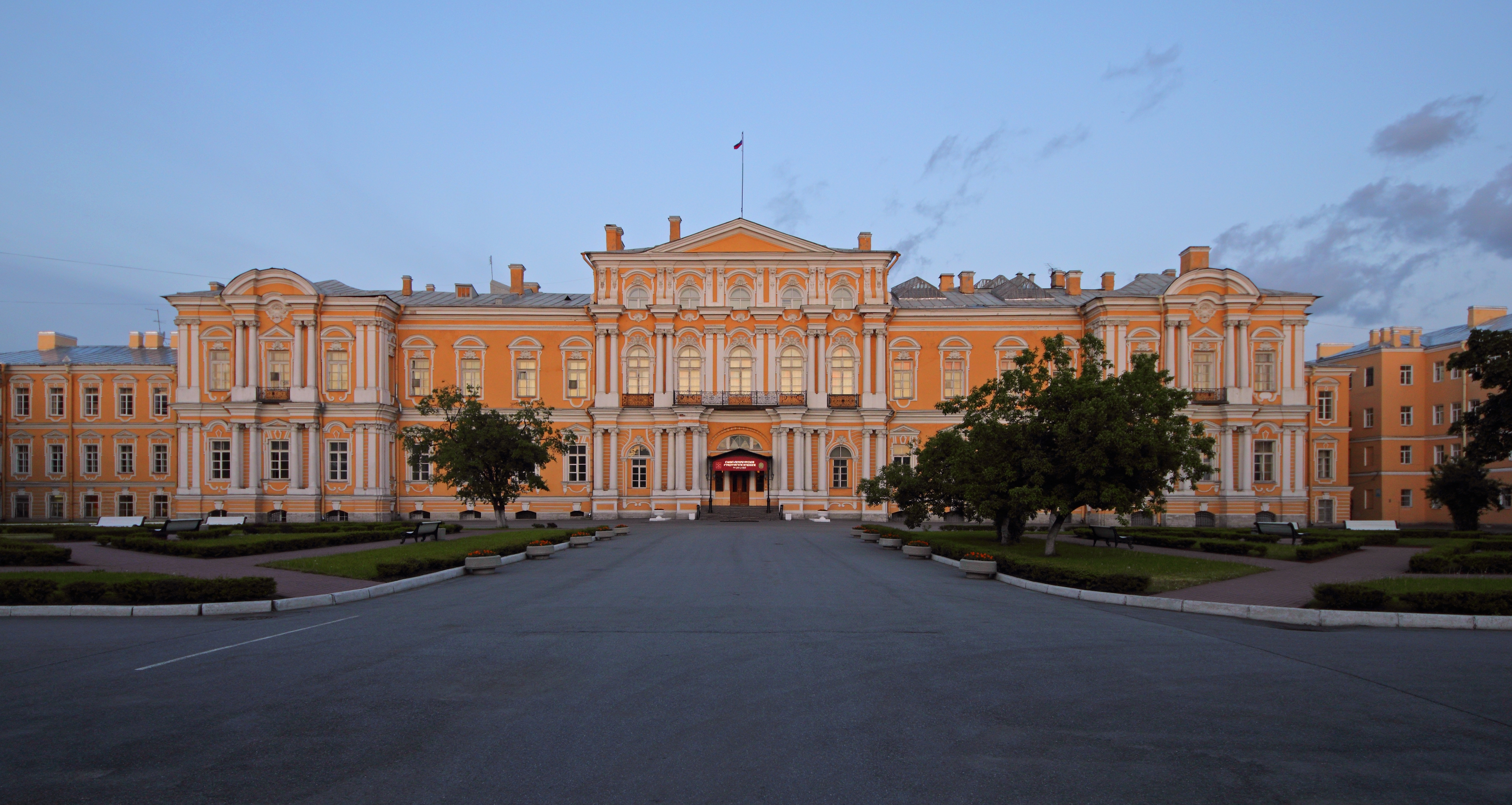 Saint Petersburg, Russia. Vorontsov Palace at Sadovaya.